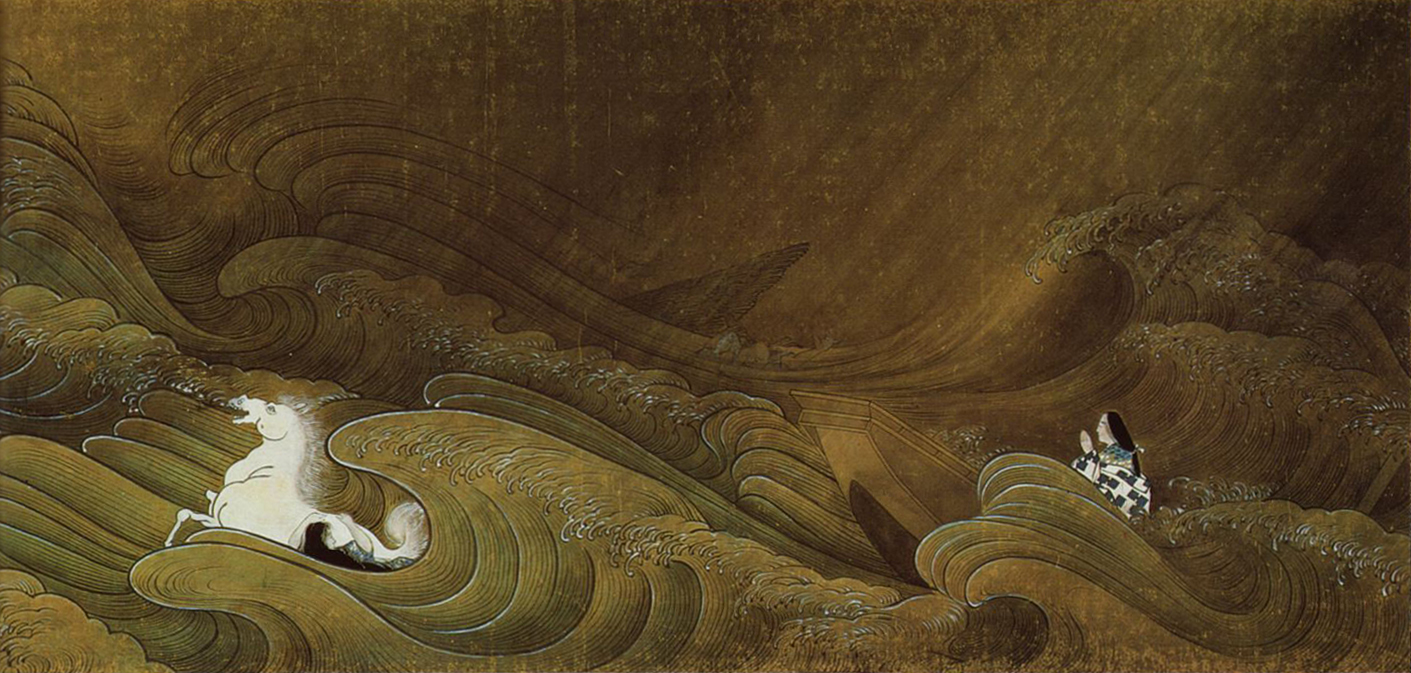 The old picture scrolls of the Ishiyama temple's histories supplemented by Tani Buncho ;the 7th in 7 scrolls,colors on paper 石山寺縁起絵巻 第７巻